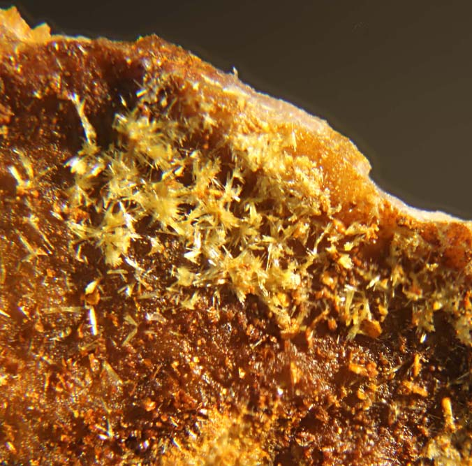 Outstanding yellow crystals of the rare arsenate mineral kaňkite from the type locality in Kaňk, Kutná Hora (Kuttenberg), Bohemia, Czech Republic.